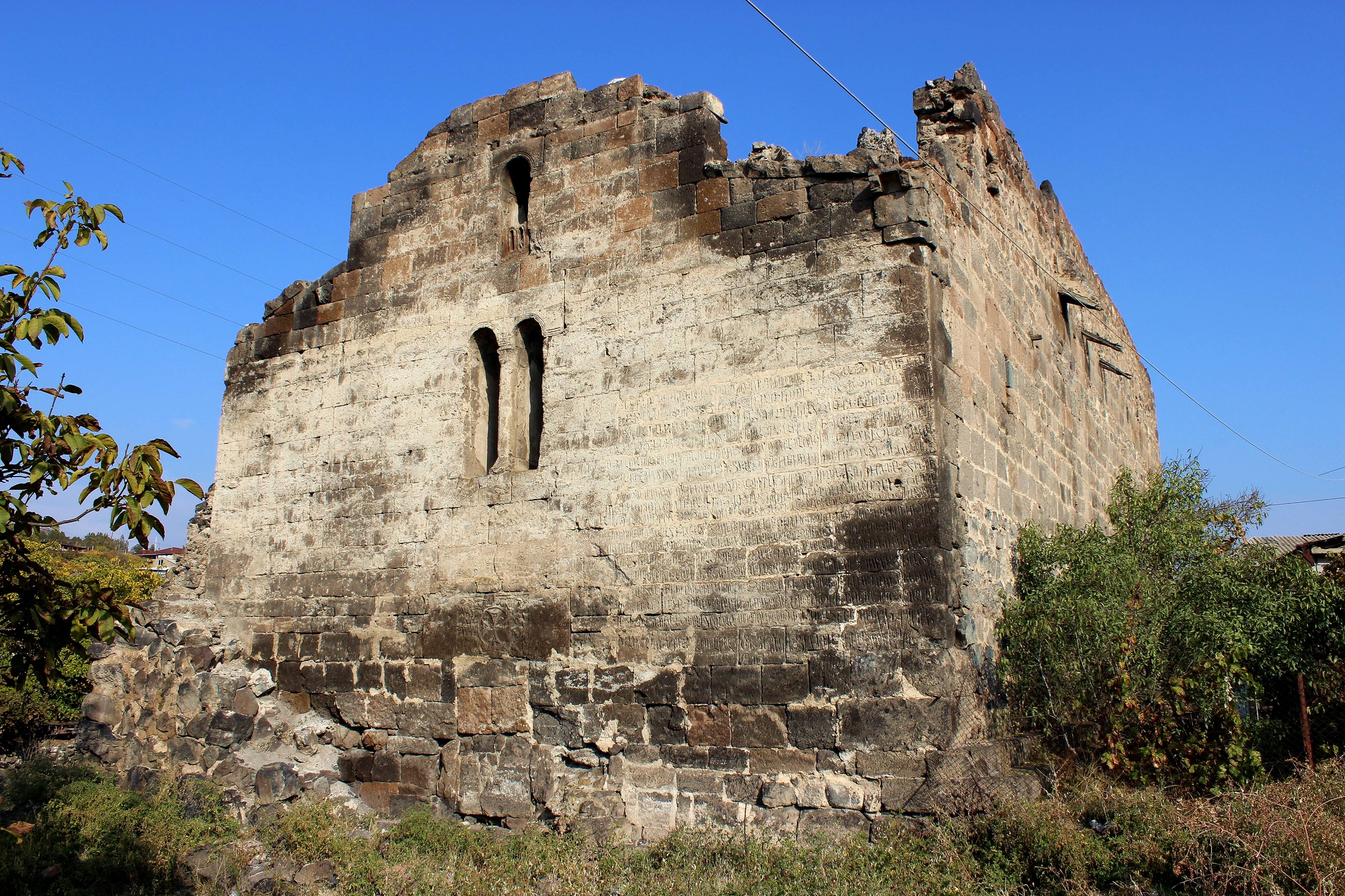 Corner view of Spitakavor Church in Ashtarak